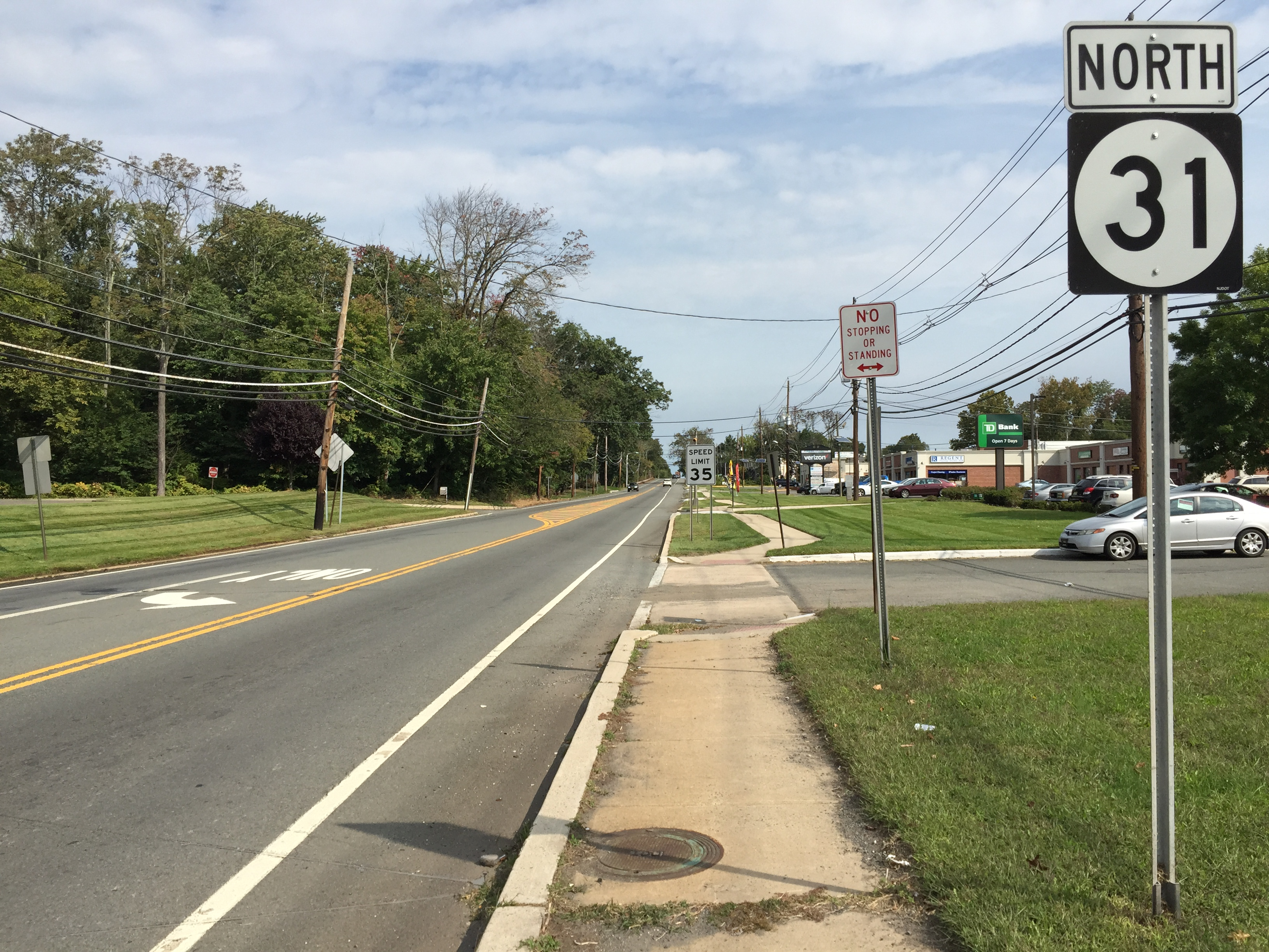 View north along New Jersey State Route 31 at Delaware Avenue in Pennington Borough, Mercer County, New Jersey